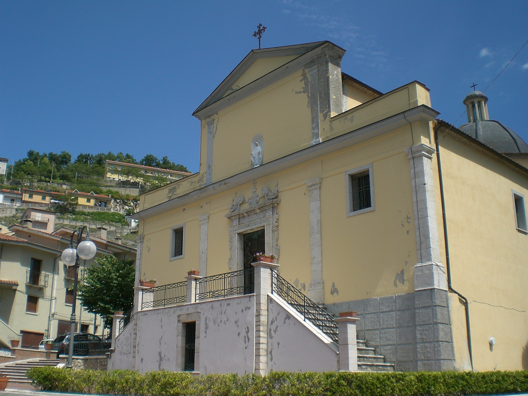 Church in Santomenna